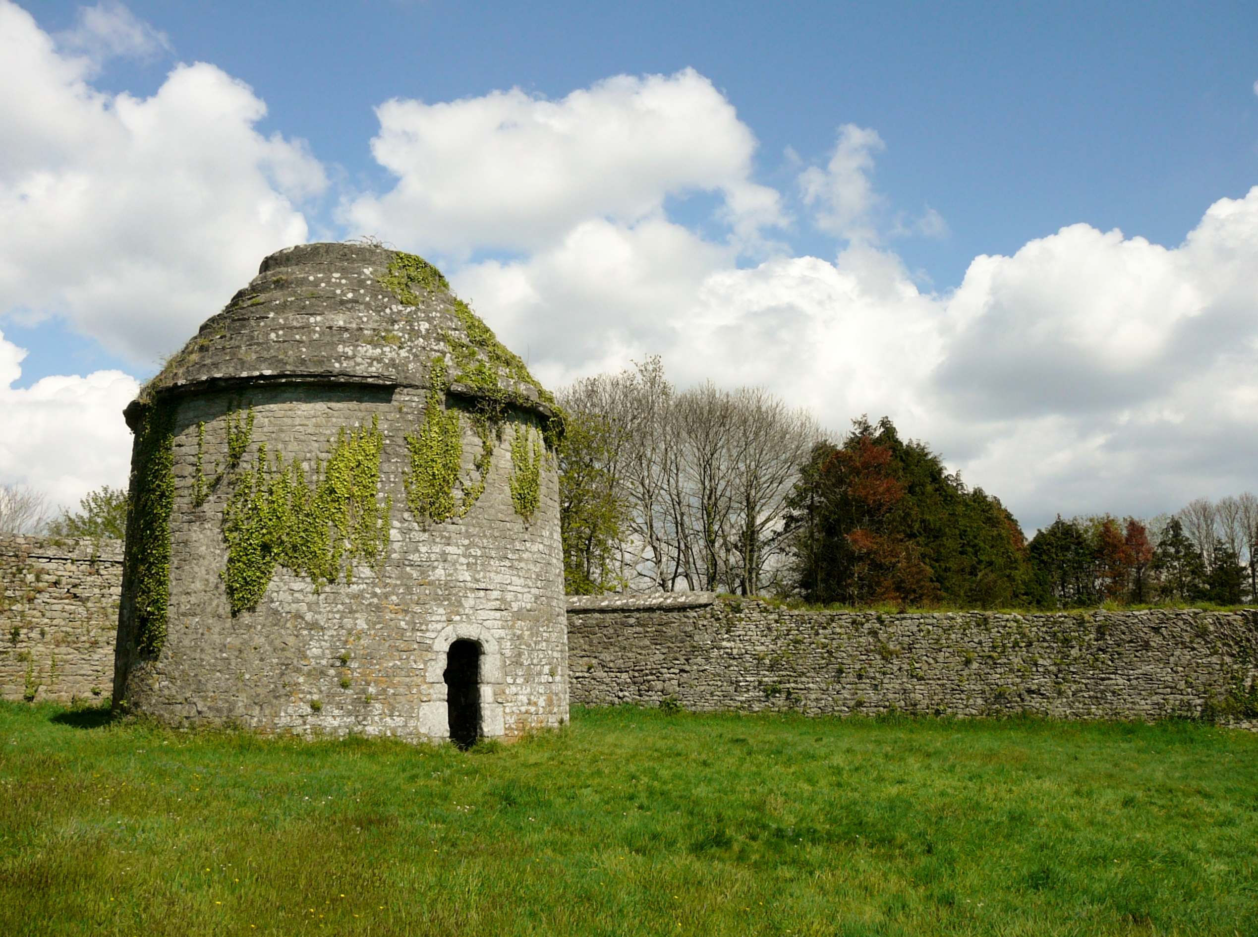 Tower of the Menoir de Keroual in the park of Bois de Keroual